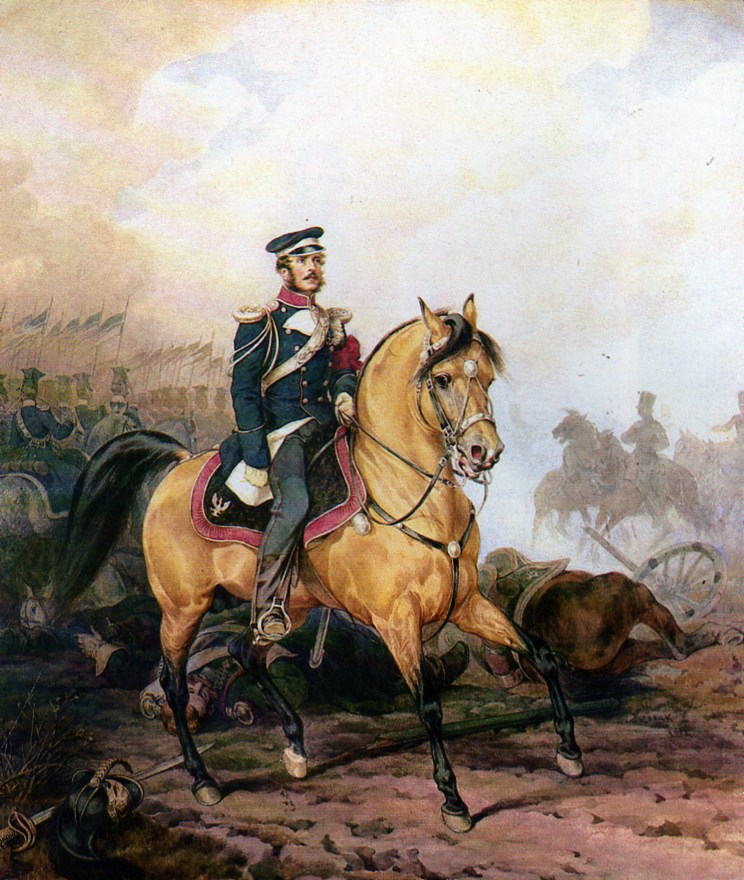 Wladyslaw Hieronim Sanguszko, Polish military officer of November Uprising of 1830